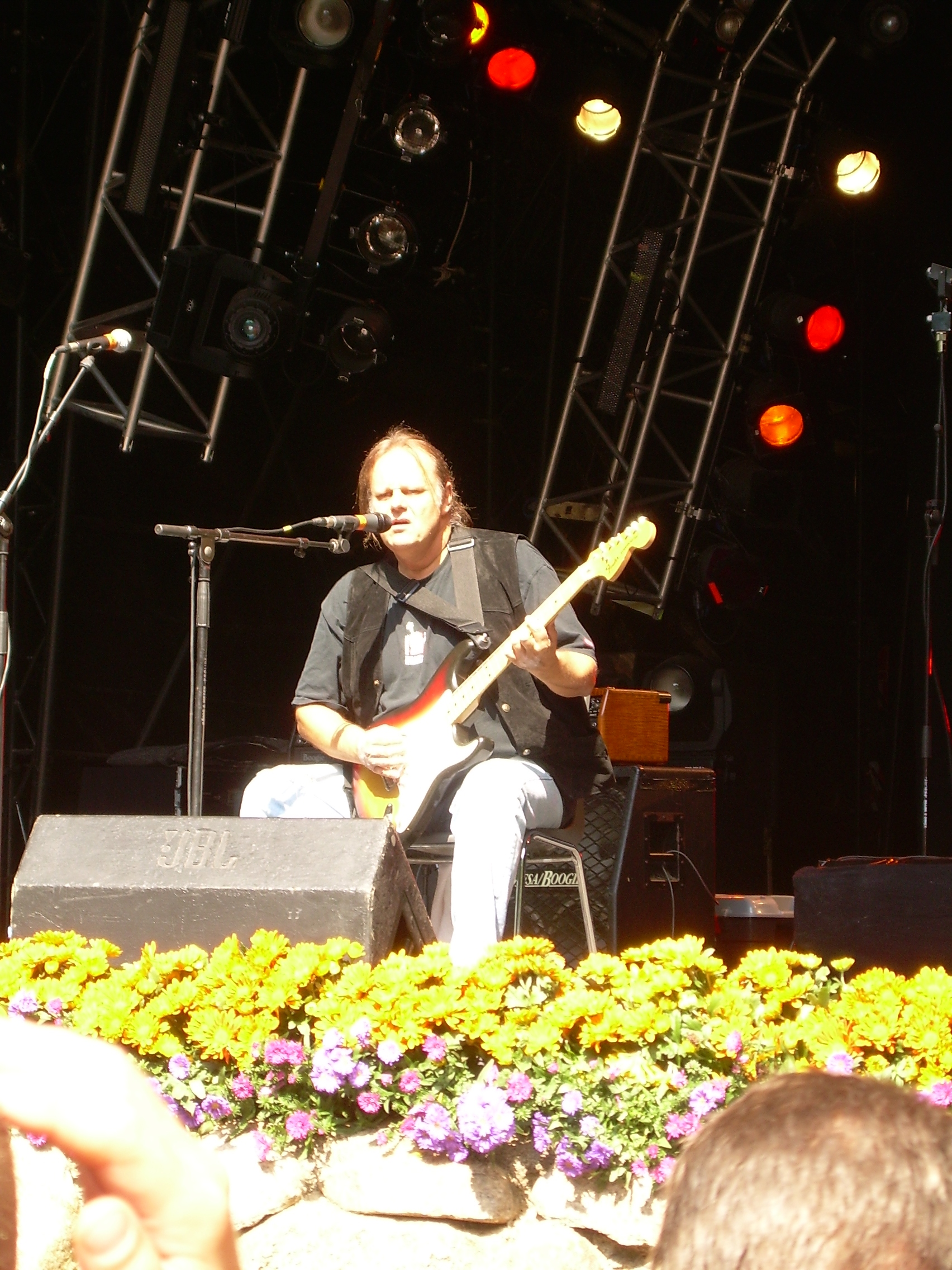 Photo of american blues guitarist Walter Trout taken at Skanderborg Festival 2007, Denmark